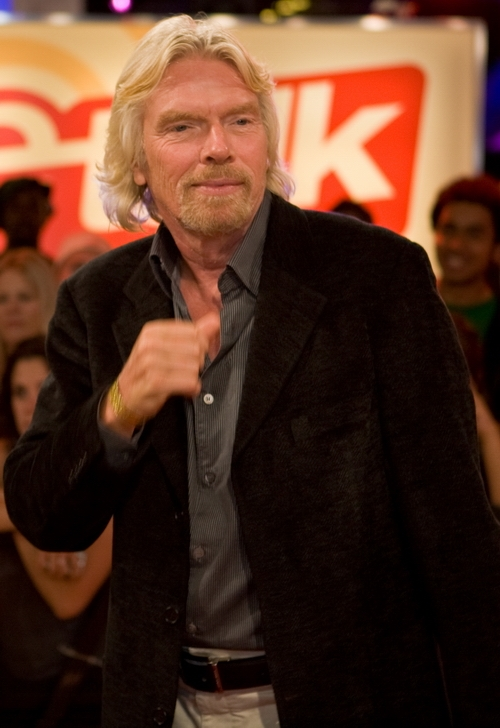 Sir Richard Branson at the eTalk Festival Party, during the Toronto International Film Festival.